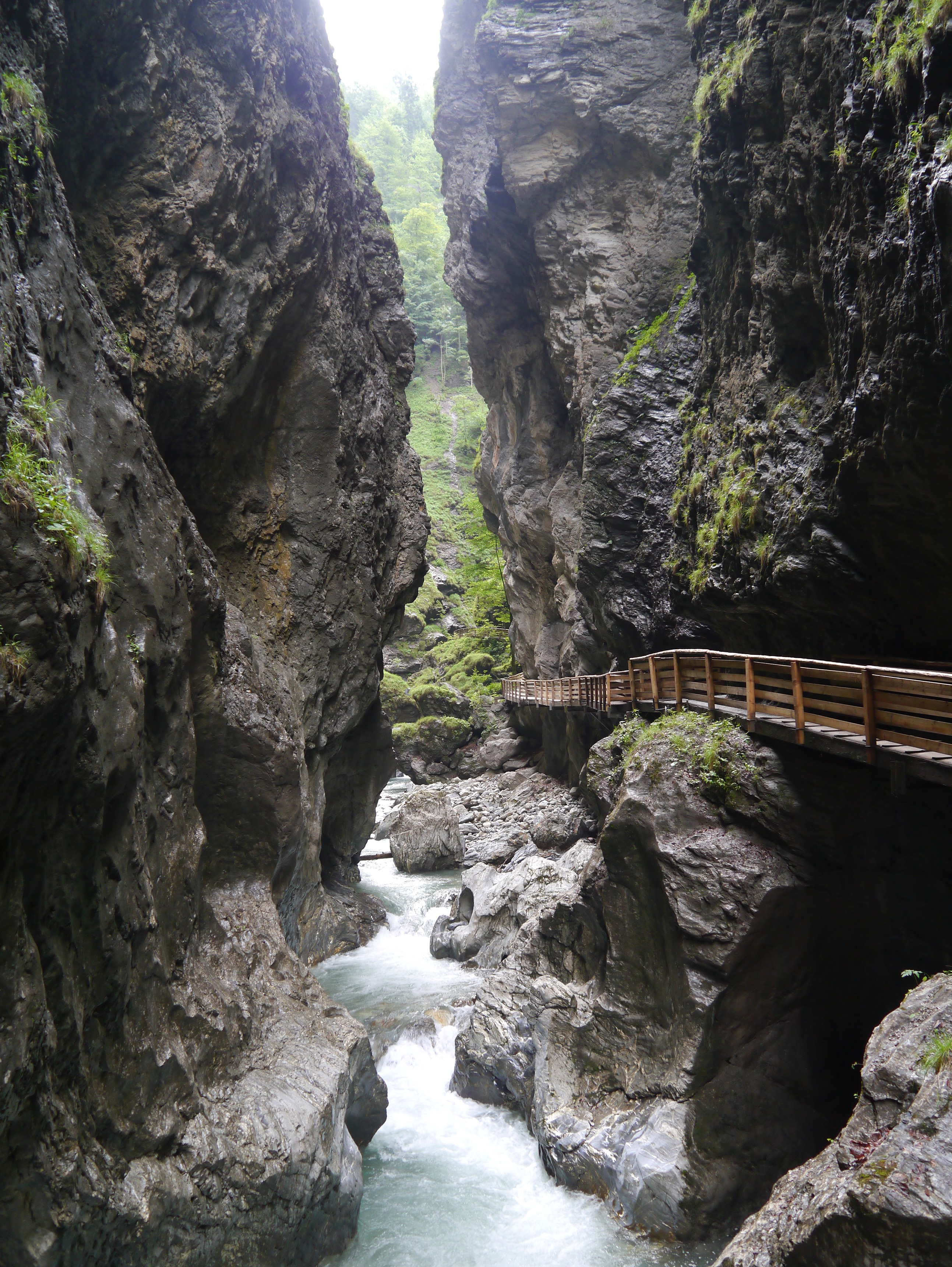 Liechtenstein Ravine, Federal State of Salzburg (Austria)